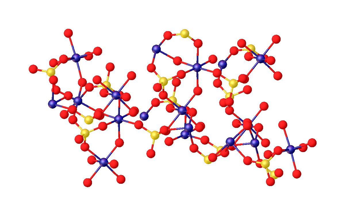 portion of structure of basic chromium sulfate (Cr(OH)SO4(H2O)) from doi 10.1107/S0567740881005001